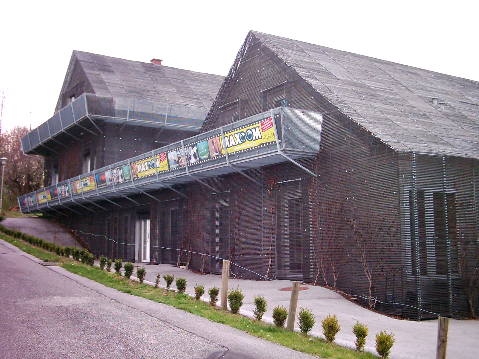 The south-east side of the residential building "Black Treefrog" in Bad Waltersdorf, Austria. Die Südostseite des Wohnbaus Schwarzer Laubfrosch in Bad Waltersdorf